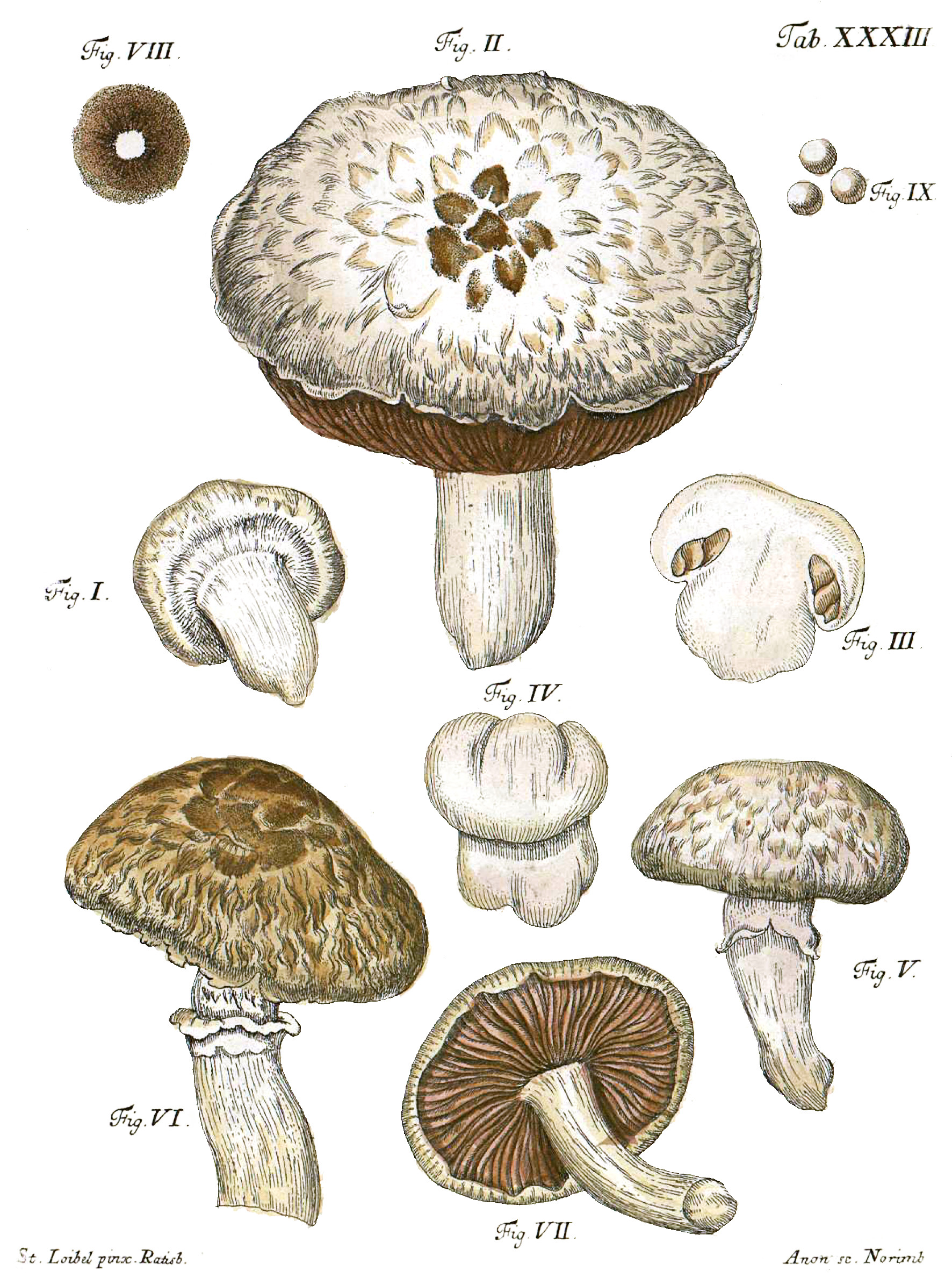 Explanation of the 2nd plate by the author J.C. Schäffer (in German und Latin) The plate shows Agaricus campestris, L. Fungorum qui in Bavaria et Palatinatu circa Ratisbonam nascuntur icones, Vol 4: Seite 16 (1774). Agaricus campestris L. in the Mycobank